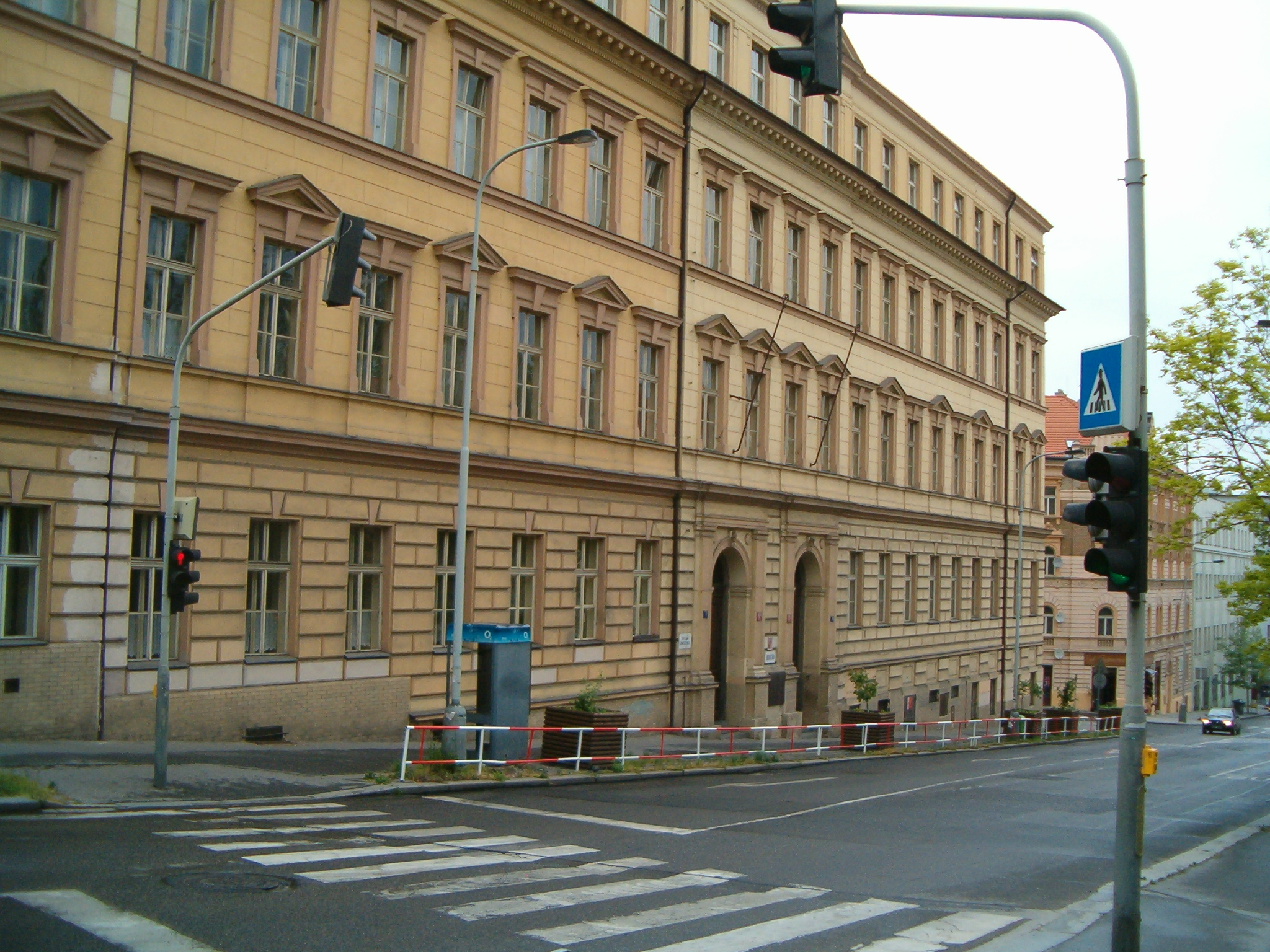 Elementary school in U Santošky street in Prague